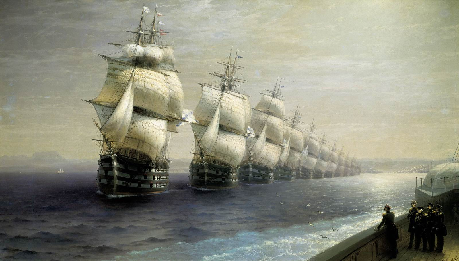 The inspection of the Black Sea fleet 1849 (Emperor Nicholas I)